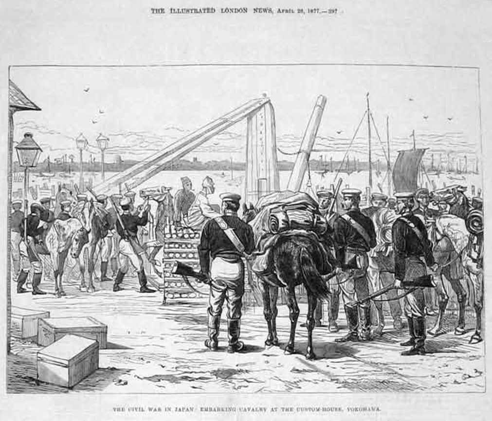 Imperial cavalry boarding at Yokohama for Satsuma